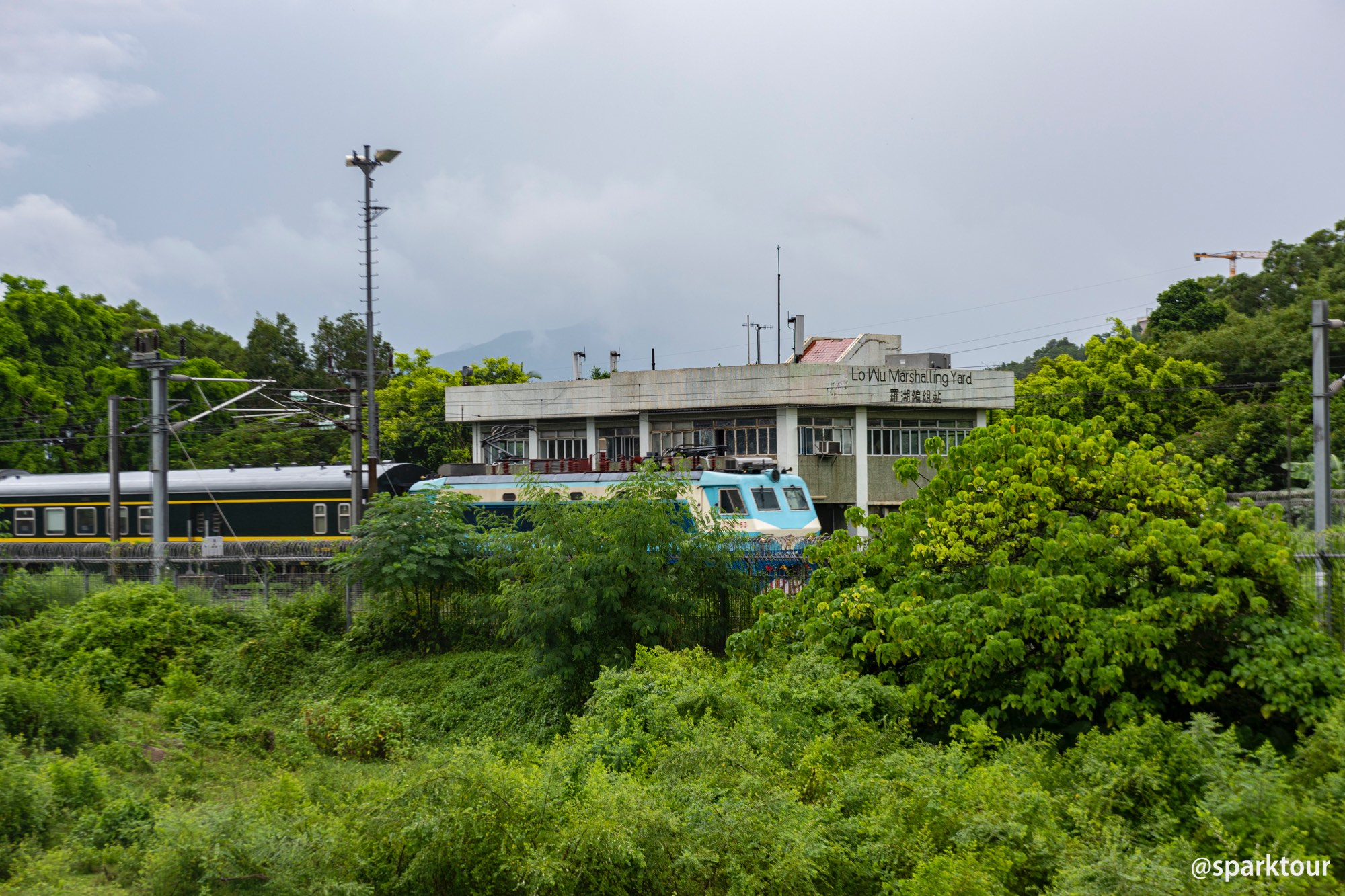 SS8 Locomotive on Lo Wu Marshalling Yard